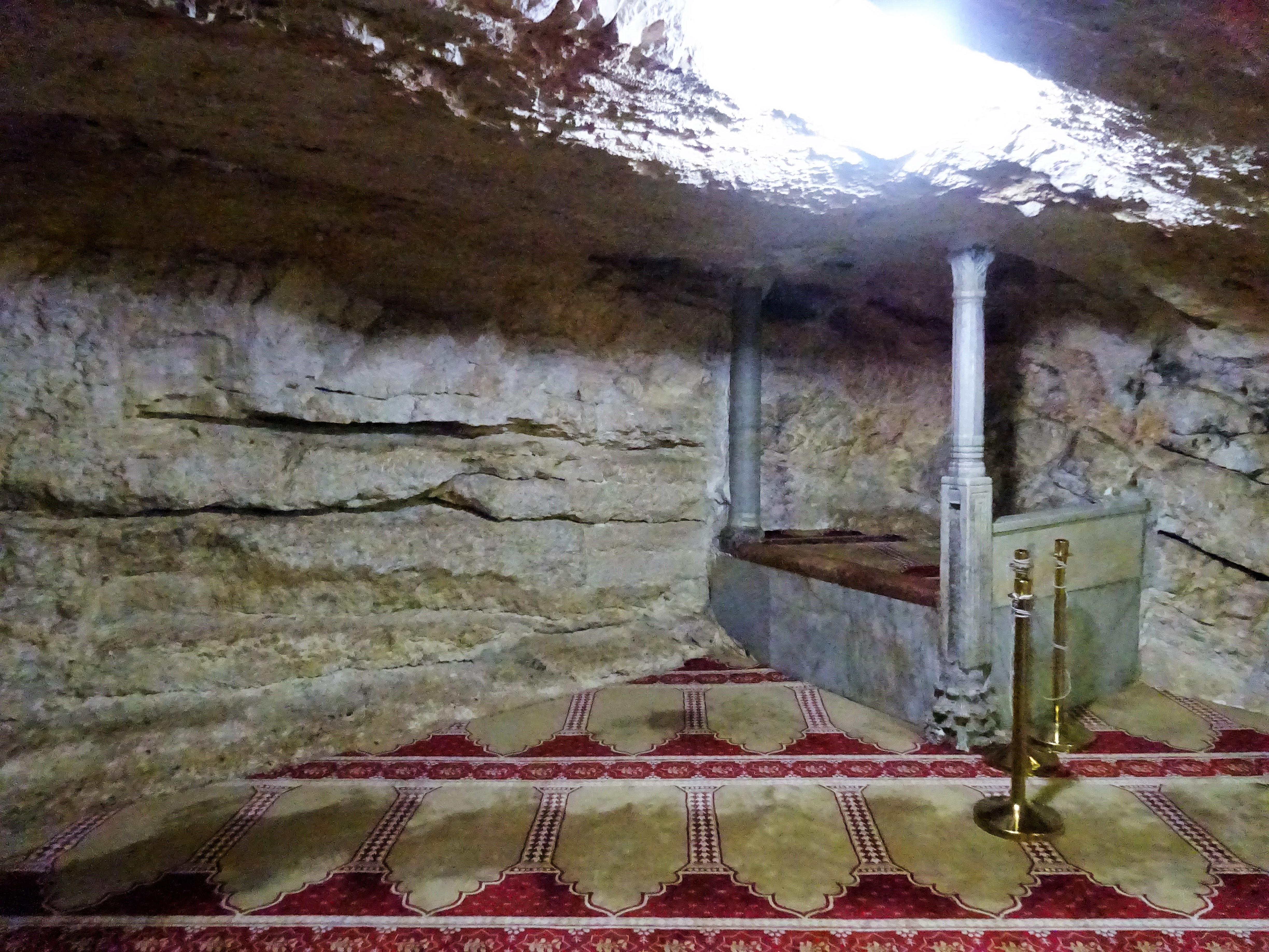 inside Well of Souls, Dome of Rock (Jerusalem 2018)